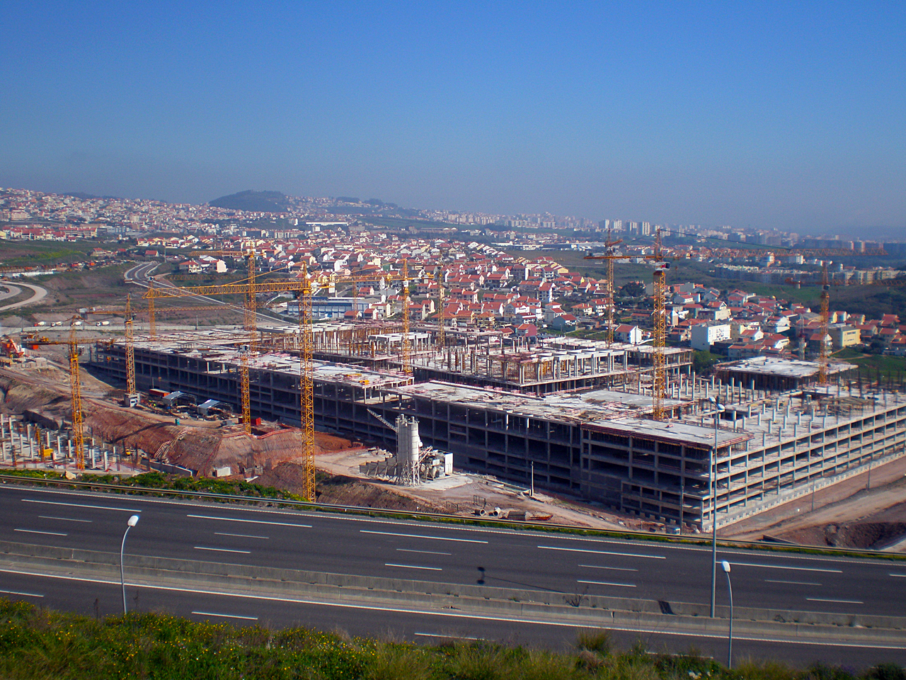 Participação da FCM na construção do Centro Comercial Dolce Vita Tejo, o maior centro comercial da Peníncula Ibérica.